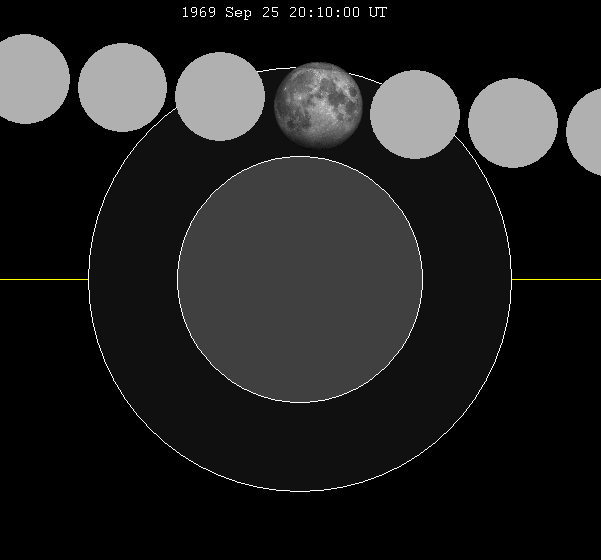 September 1969 lunar eclipse chart of moon's path through the earth's shadow. thumb